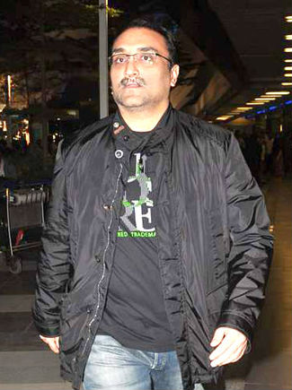 Rani, Aditya, Yash and Uday Chopra return from vacation